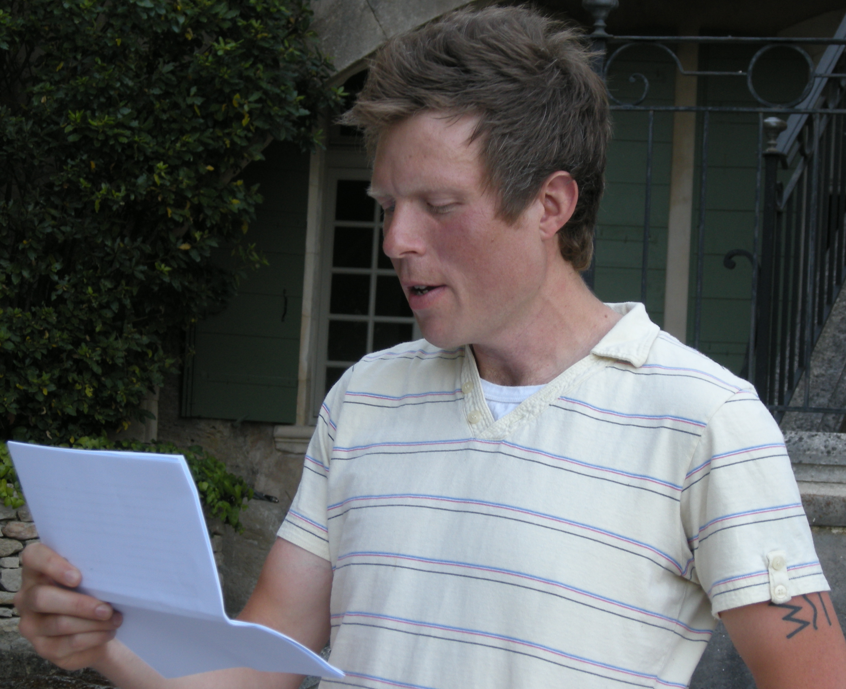 John McManus reads an excerpt from an unpublished novel to a small audience in the Ghent neighborhood of Norfolk, Virginia.